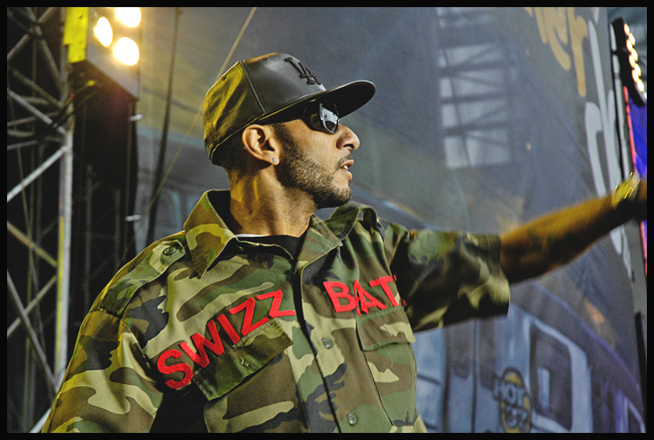 Swizz Beatz performing at Hot 97's Summer Jam 2007 in Giants Stadium, East Rutherford, New Jersey, United States.